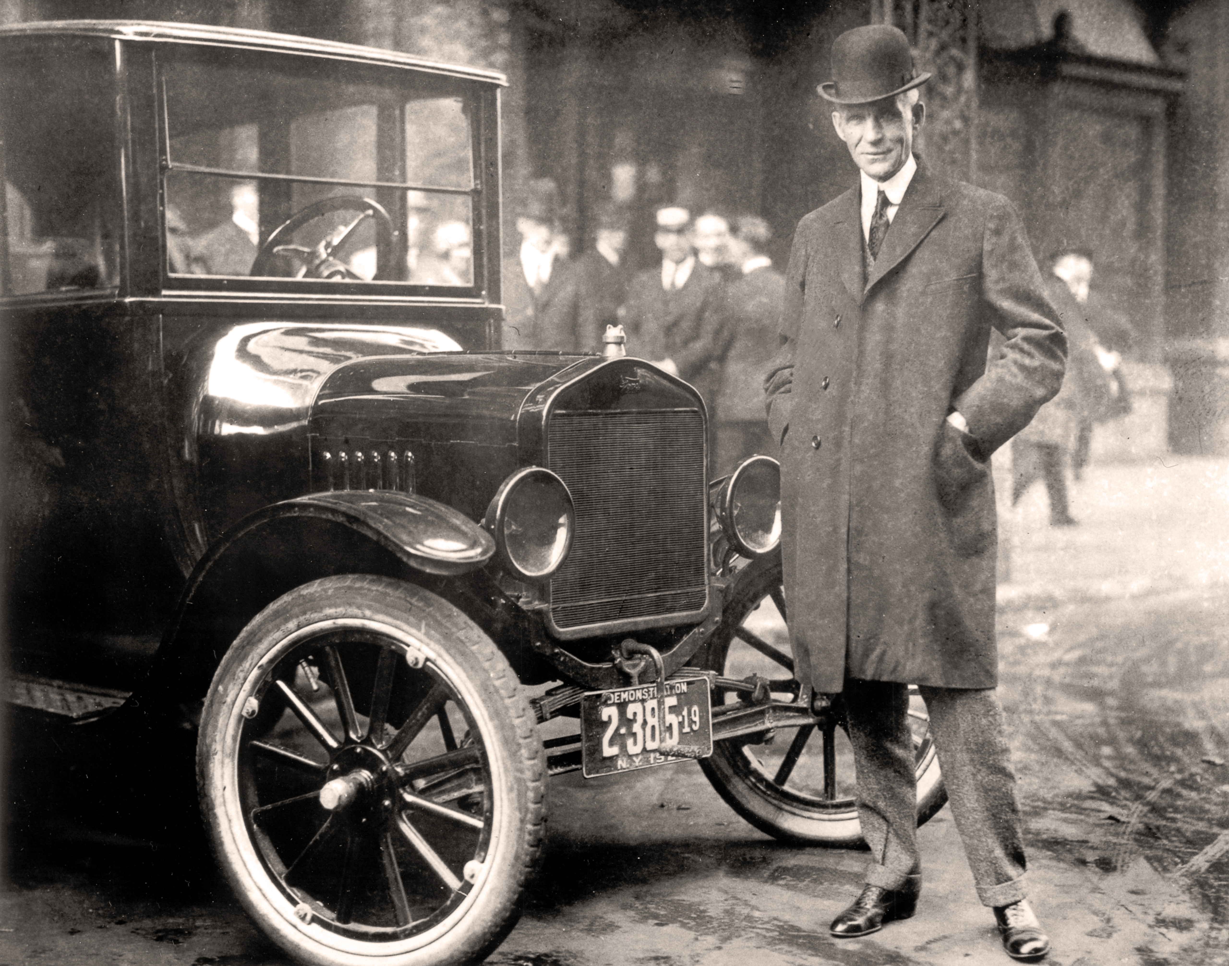 Henry Ford with Model T, Hotel Iroquois, Buffalo NY 1921